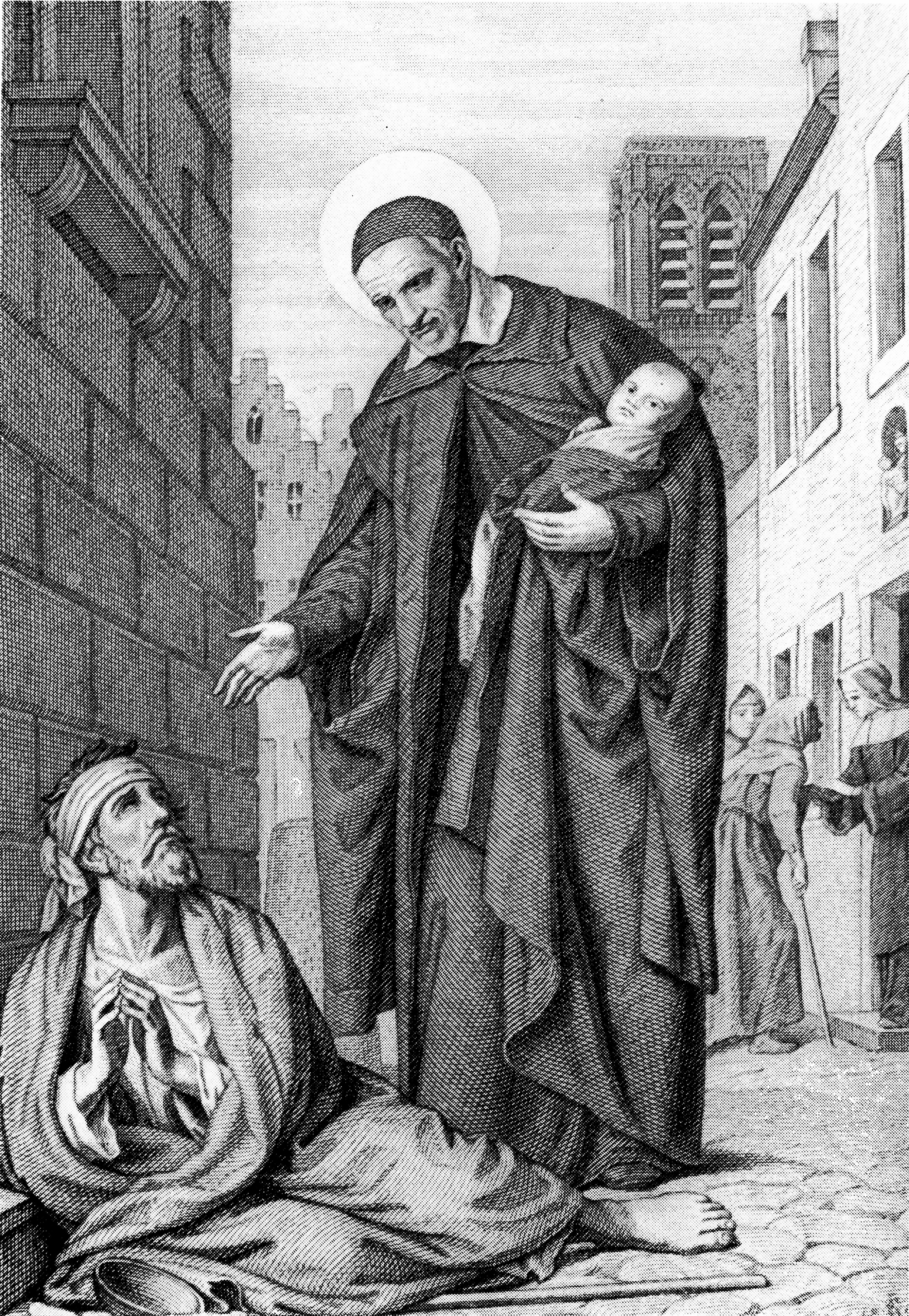 Saint Vincent de Paul; from an engraving. General Collections Keywords: Vincent de Paul